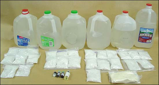 Six plastic one gallon jugs containing liquids (suspected GBL).